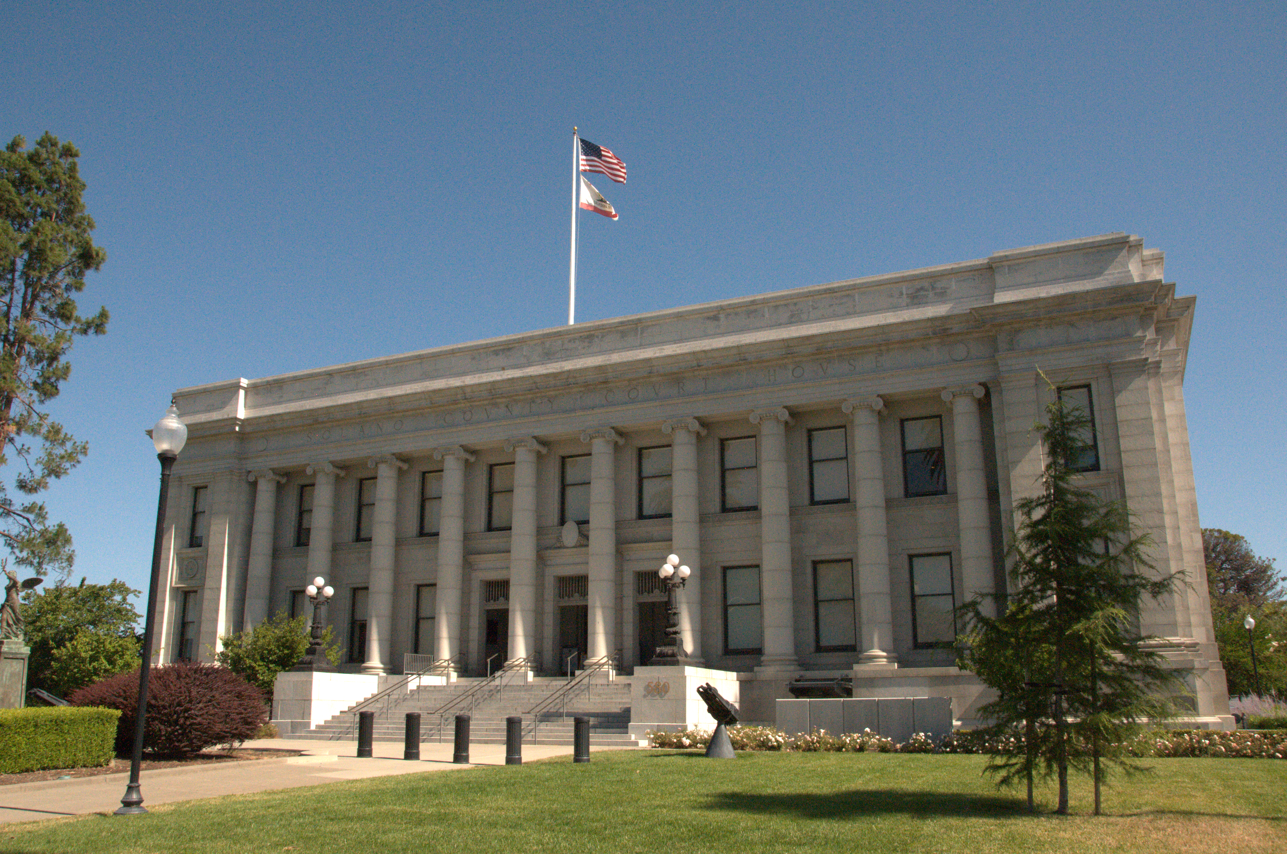 Front facade, visible from Texas St.